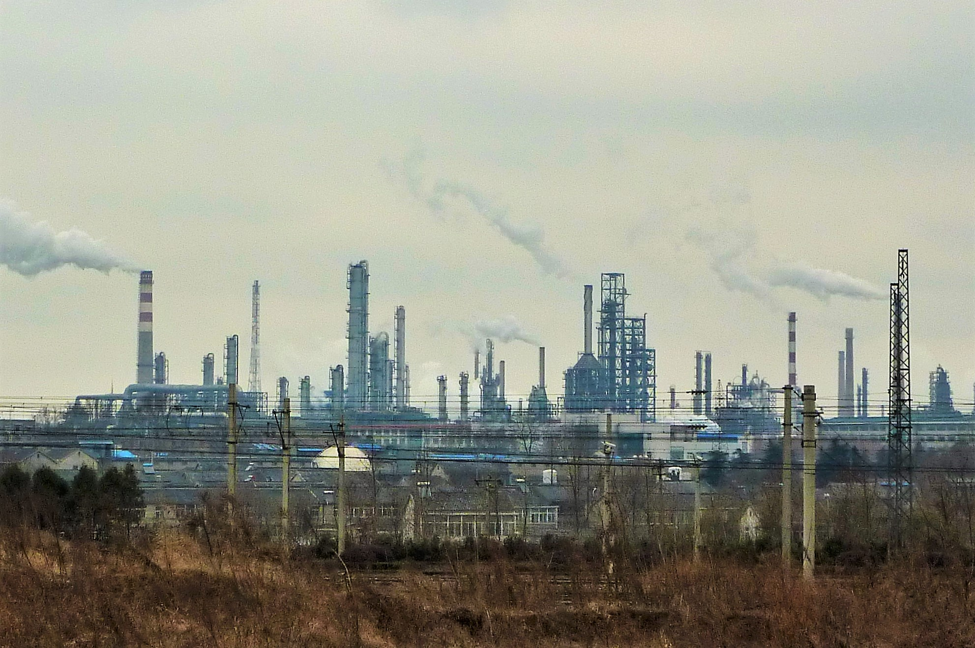 Ganjiaxiang's industrial panorama. (The area has Jinling Oil Refinery, a fertilizer plant, a power plant, etc.